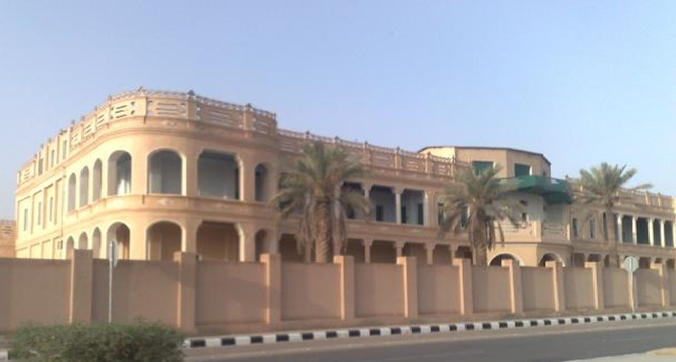 king abdul aziz c in khrg